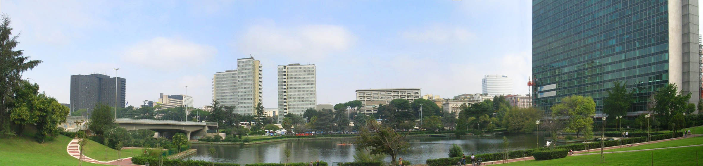 EUR, the central business district of Rome. Skyscrapers from the left: Telecom Italia Tower (dark colour), Grattacielo Italia (in the background), Ministero Delle Finanze I, II, III towers (central part of picture), INAIL Tower (white colour, in the background) and Palazzo Eni (dark greenish colour).